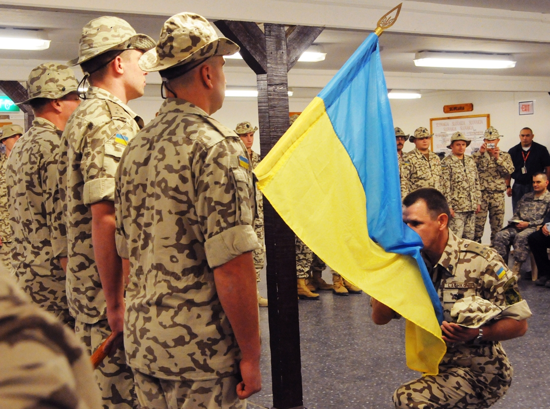 Henadii Lachkov, commander of the Ukrainian contingent in Diwaniya, Iraq, kisses his country’s flag during an end of mission ceremony at Camp Echo, December 9th, 2008.